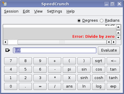 SpeedCrunch showing a divide by zero error